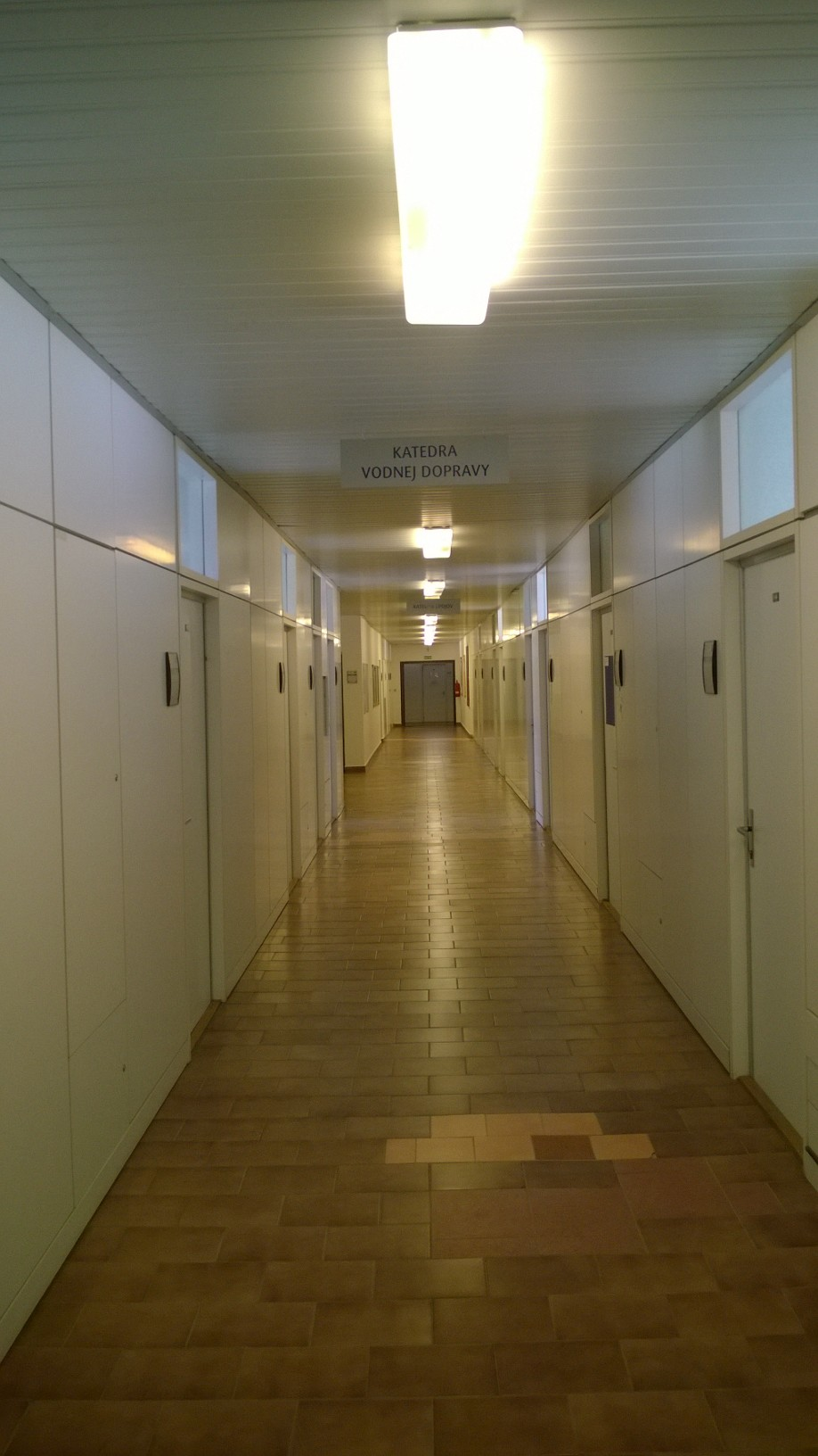 4th floor of AF building - University of Žilina Seat of Department of Communications, Department of Railway Transport and Department of Water Transport